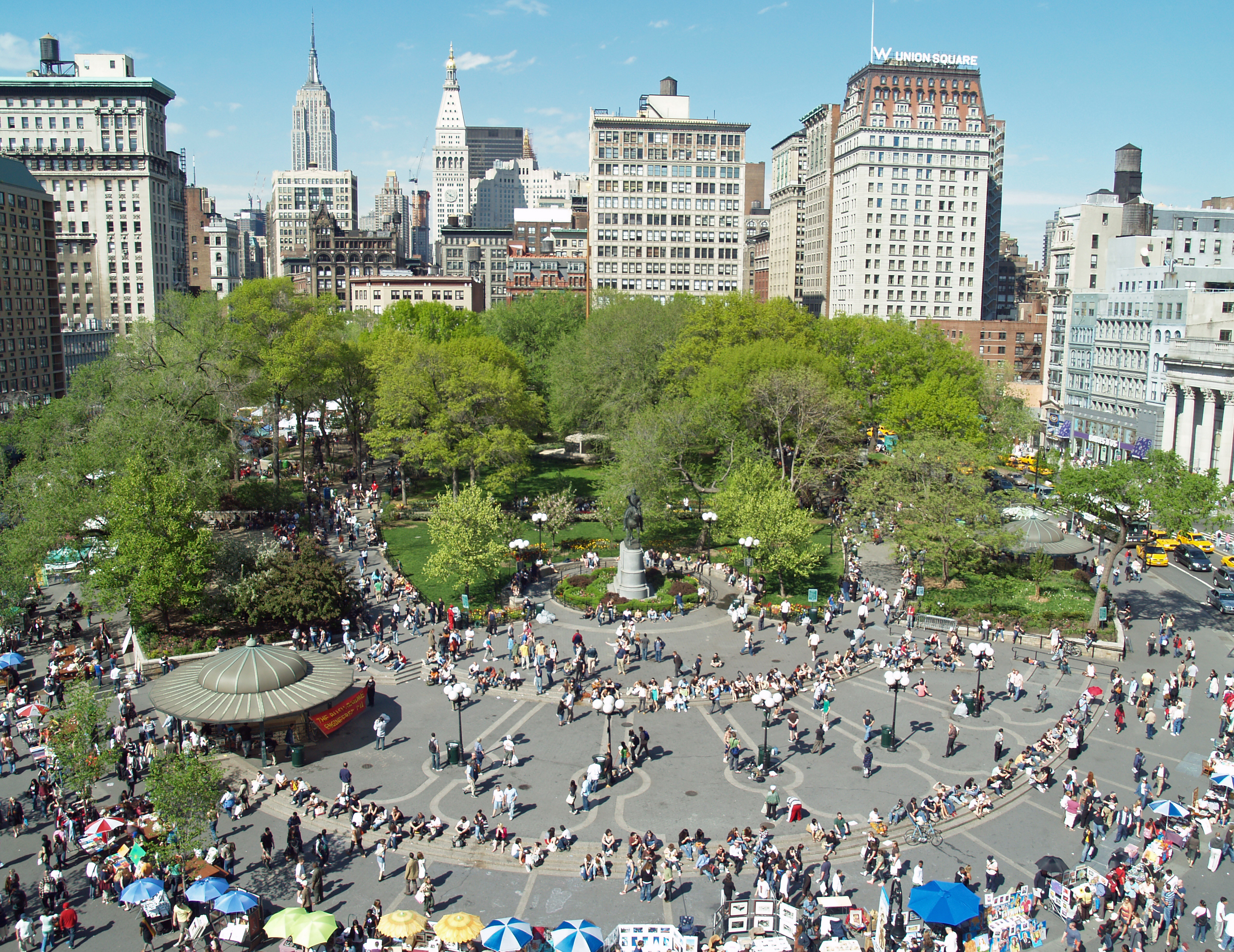 Union Square in New York